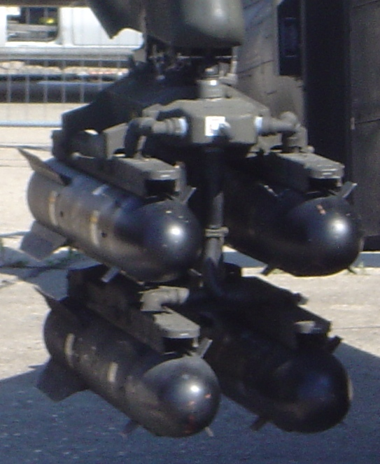 AGM-114 Hellfire in AH-64 Apache attack helicopter